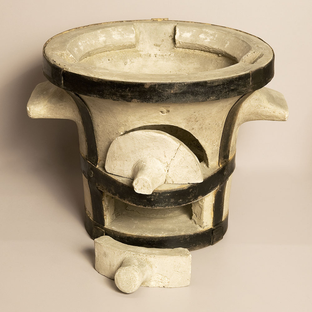 Author UnknownDescription